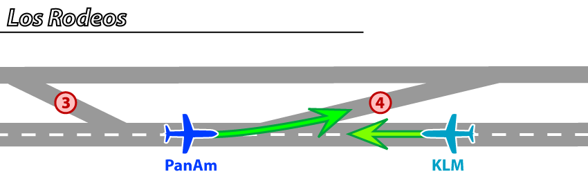 Map of the Tenerife Airfield shortly before the crash of two Boeing 747 on 3.27.1977.